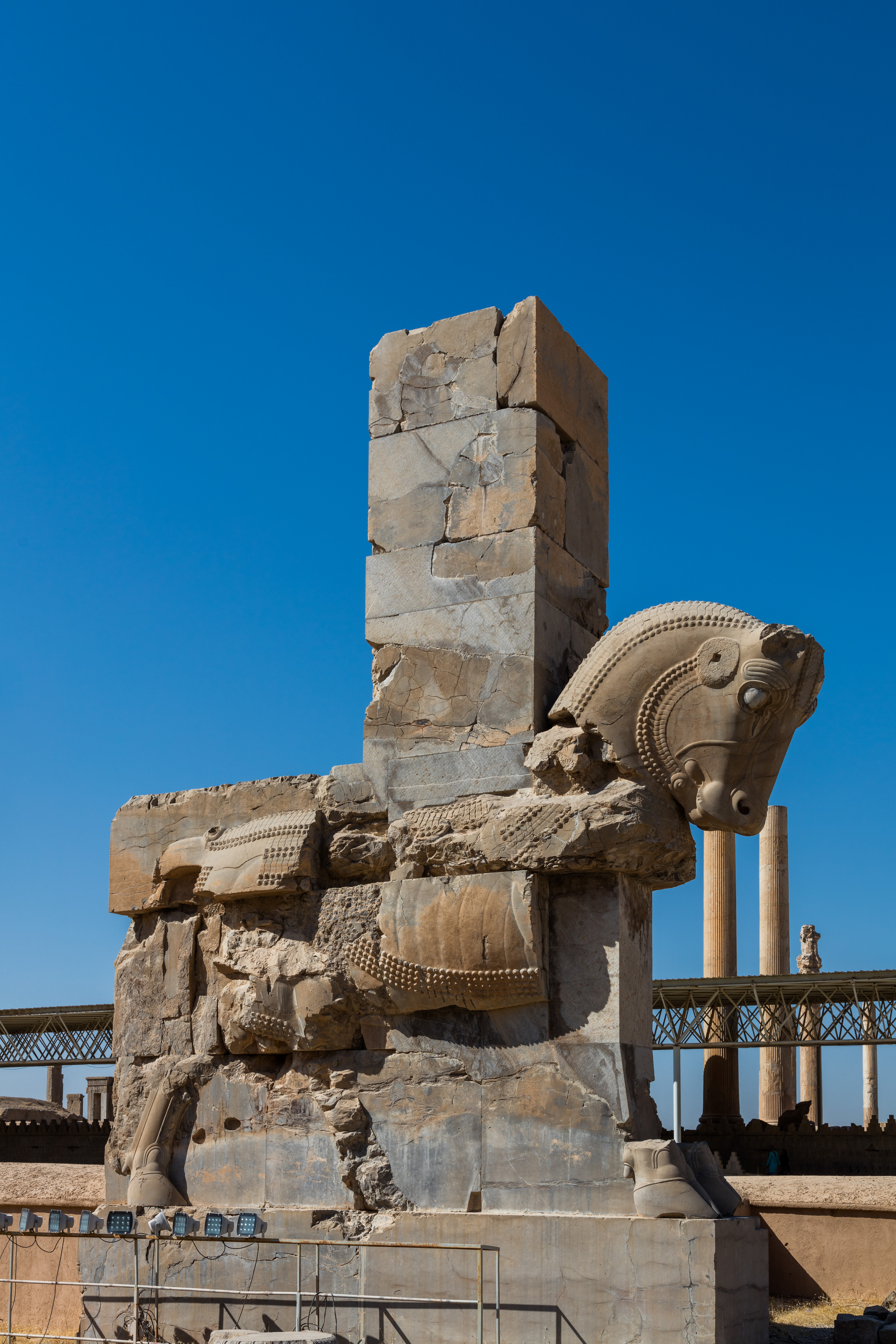 Persepolis, Iran